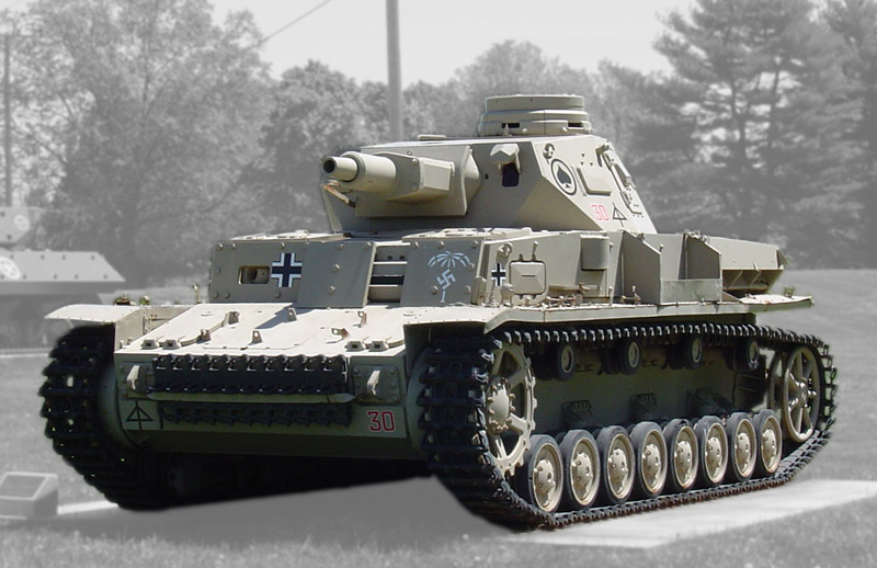 Panzerkampfwagen IV Ausf. D with additional, bolted-on, armor plates on display at the US Army Ordnance Museum in Aberdeen. The tank bears the sign of the german Afrika Korps.